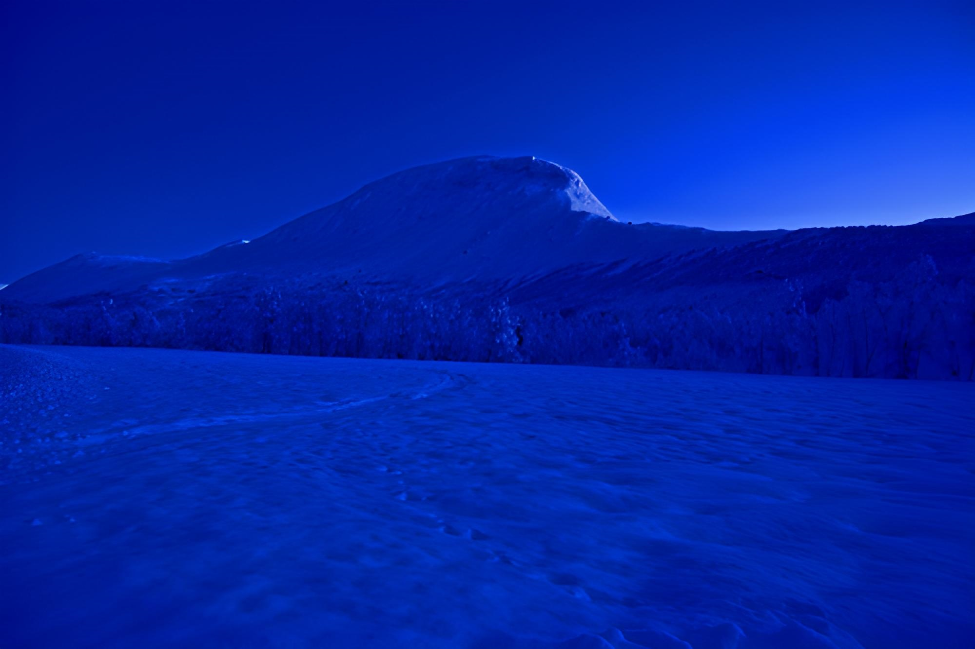 Sjurfjellet at its best: winter evening.